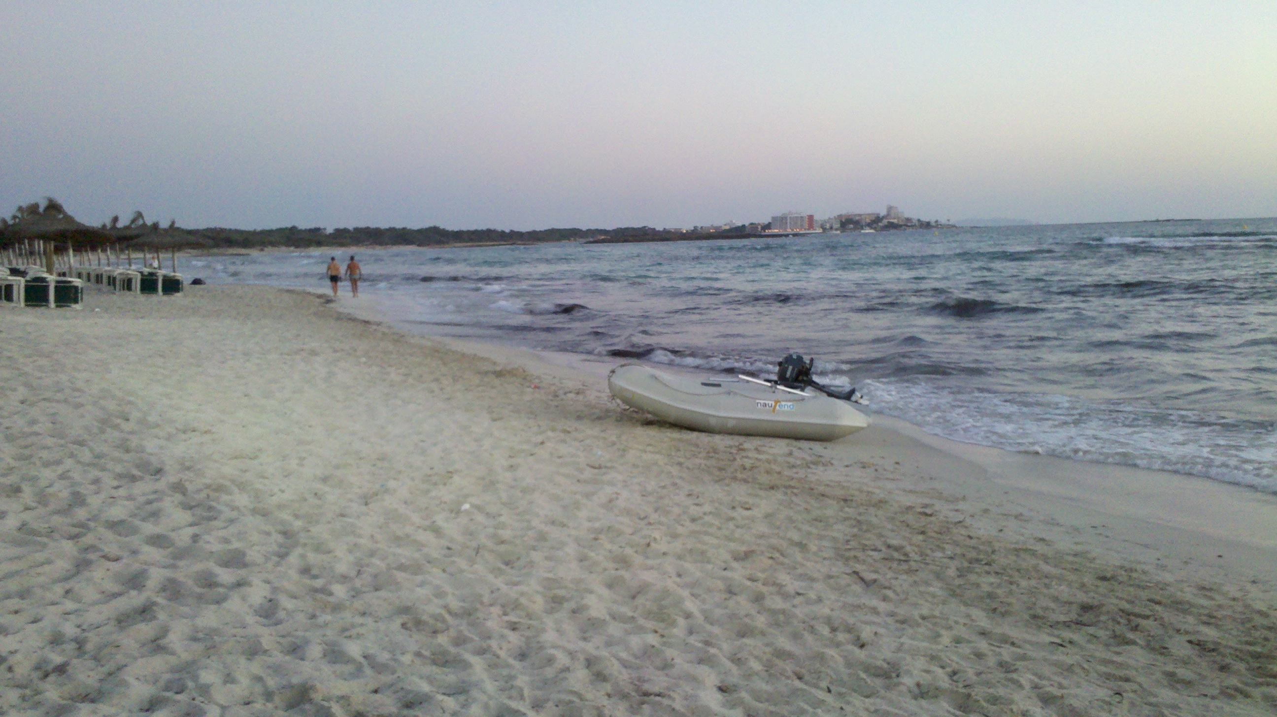 Es Trenc Beach with view to Colonia de Sant Jordi